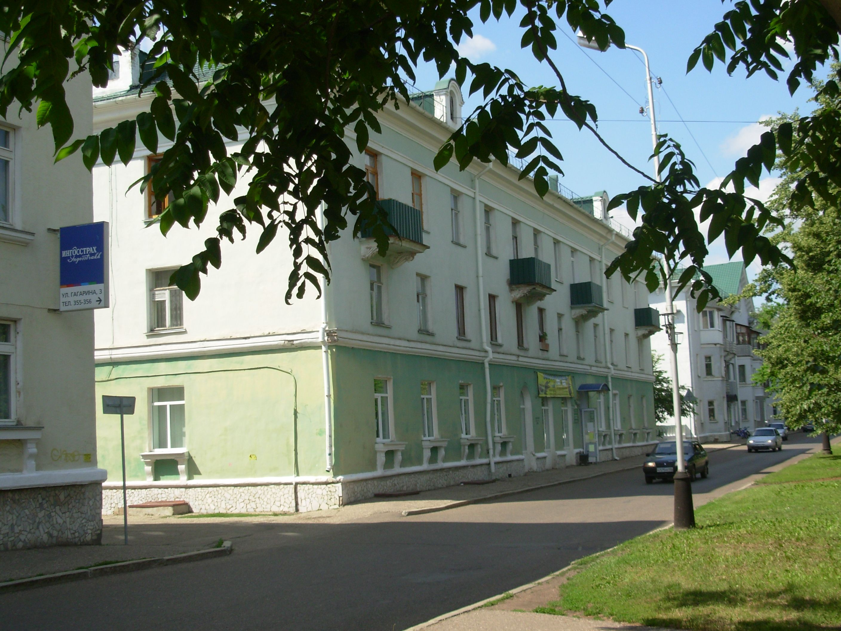 gallery